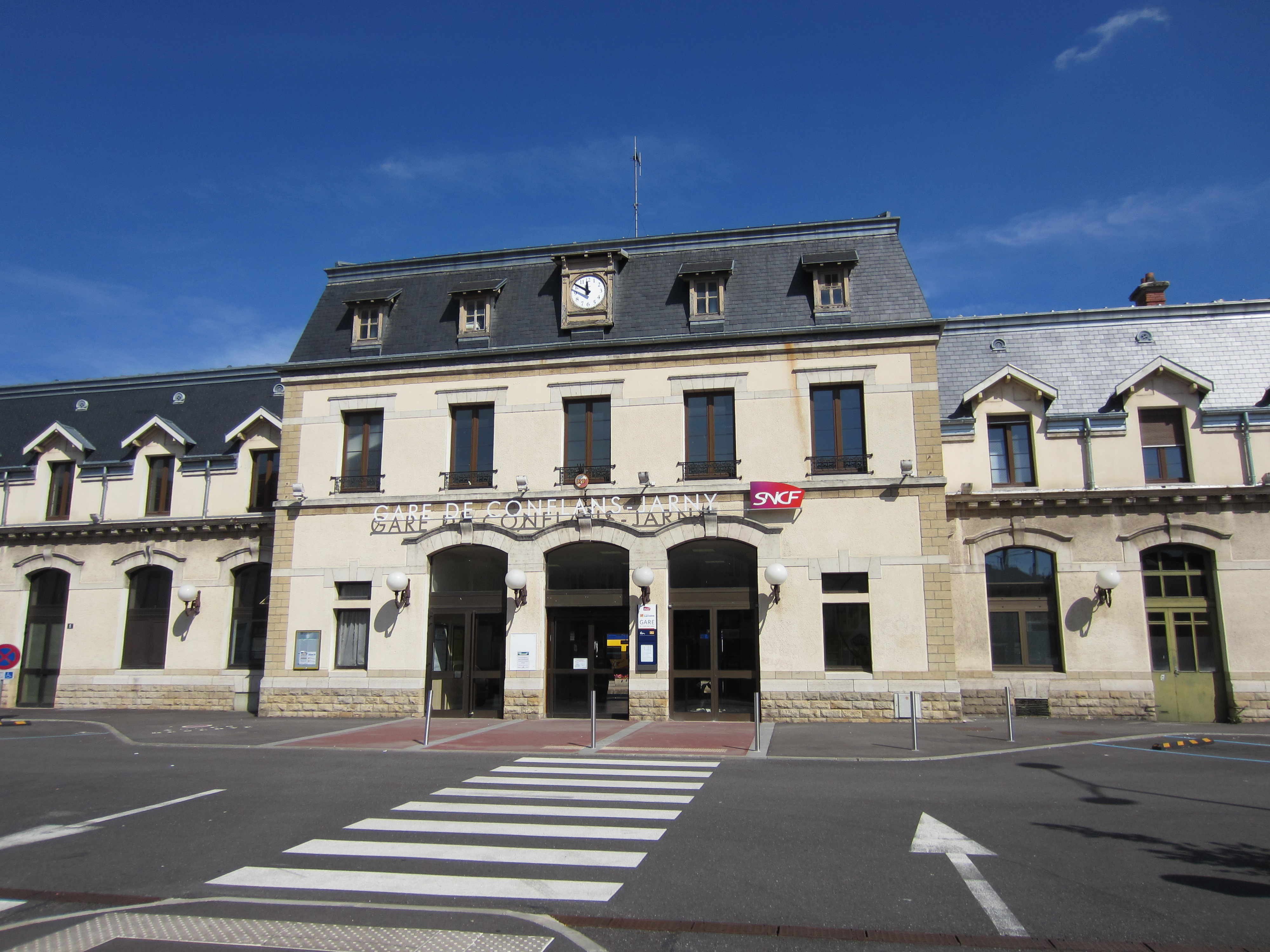 Description gare Jarny Date31 August 2011Sourcemon appareil photoAuthorAimelaimePermission (Reusing this file) gare Jarny